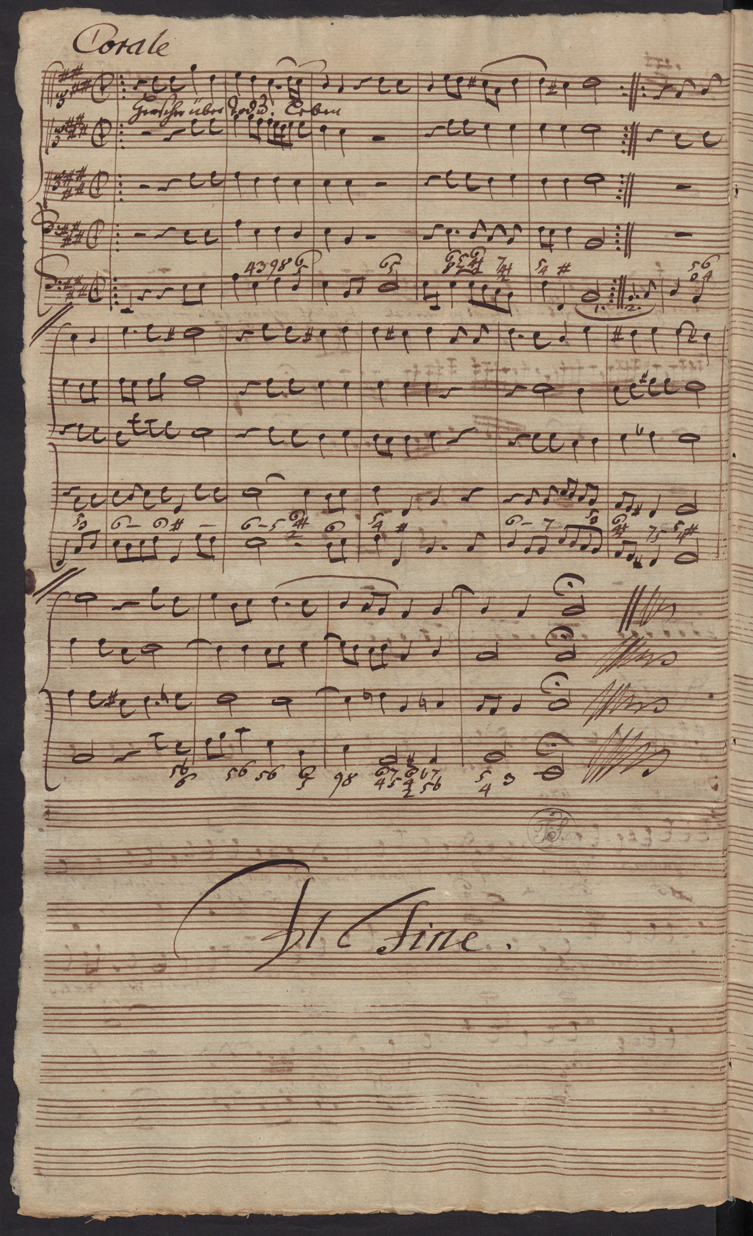 Bach's closing chorale of BWV 8, copied by Carl Friedrich Barth, chorister at the Thomasschule